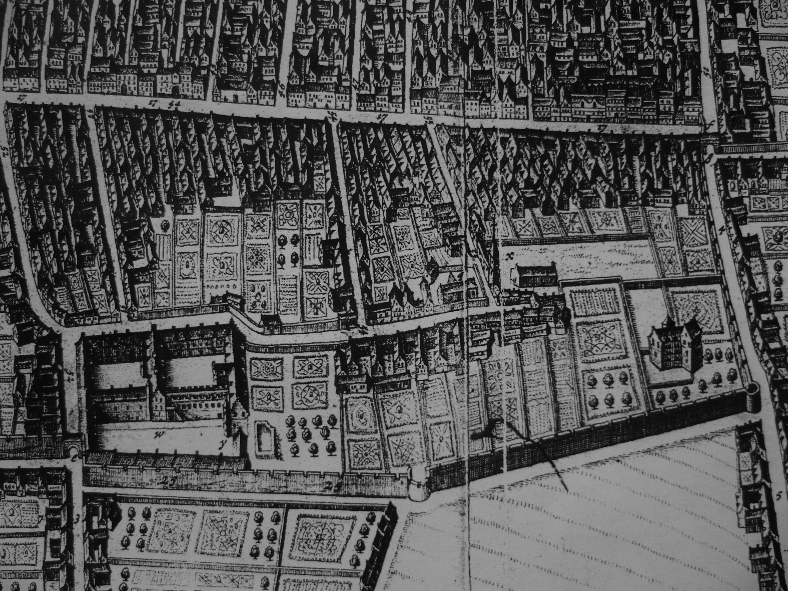 The Tounis College of Edinburgh, founded by royal charter in 1582 and known as King James' College after 1617, was built in the grounds of the pre-Reformation Collegiate Church of St. Mary-of-the-Fields (Kirk o' Field). The main college buildings forming a double courtyard can be seen lower left, with the grounds extending eastwards towards the limit of the town wall. This image is annotated on its description page.